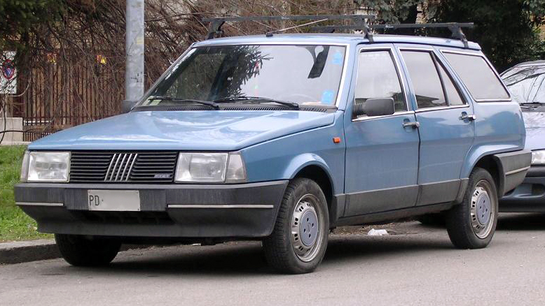 The Fiat Marengo is the van version of the Fiat Regata, with darkened rear windows and no rear seats. This is built after the April 1986 facelift, when the lower edge of the rear door side windows was straightened.